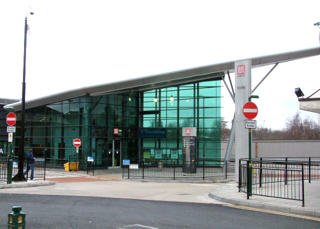 Hyde Bus Station The Eastern entrance to Hyde bus station off Clarendon Street and Tinker Street.